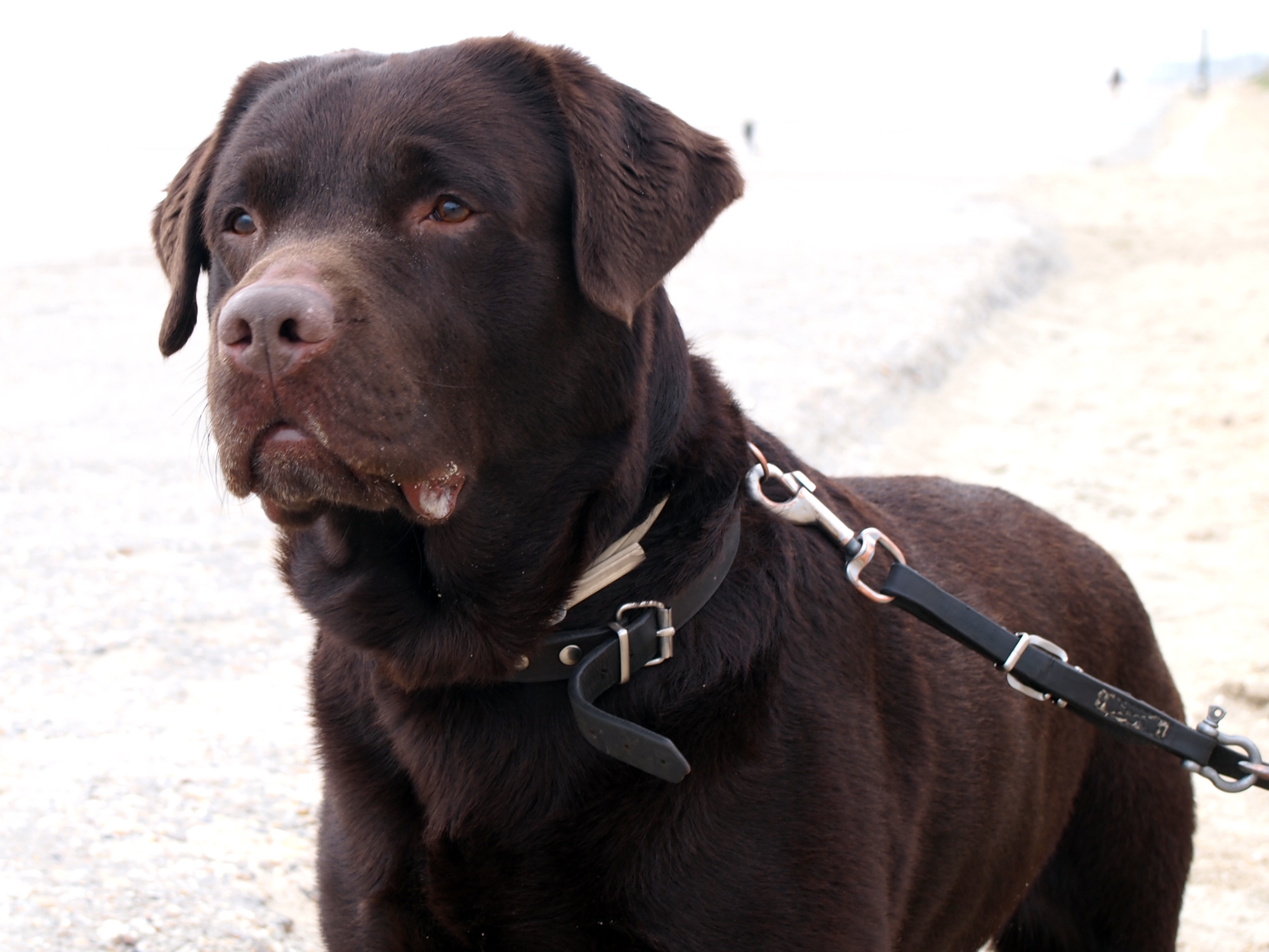 Portrait of a chocolate Labrador Retriever Name: Sam Age: 5 years (human years)